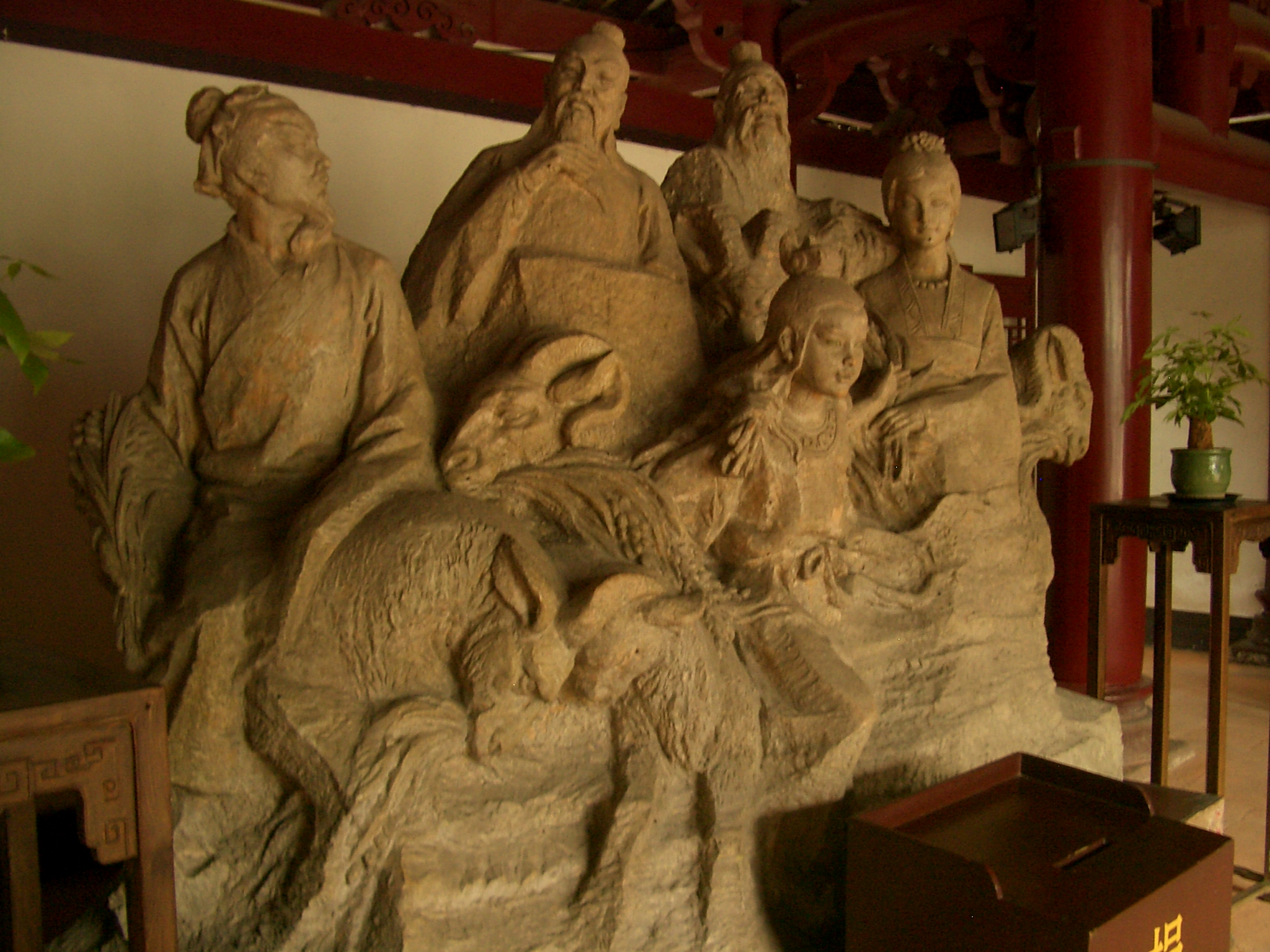 Temple of the Five Immortals (Wu Xian Guan) in Guangzhou: the statue of the said immortals, with ther rams (which certainly look a lot more like goats than sheep here).